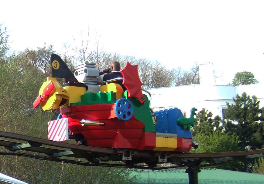 The ride "Sky Rider" over the "Imagination Theatre" in Legoland Windsor.